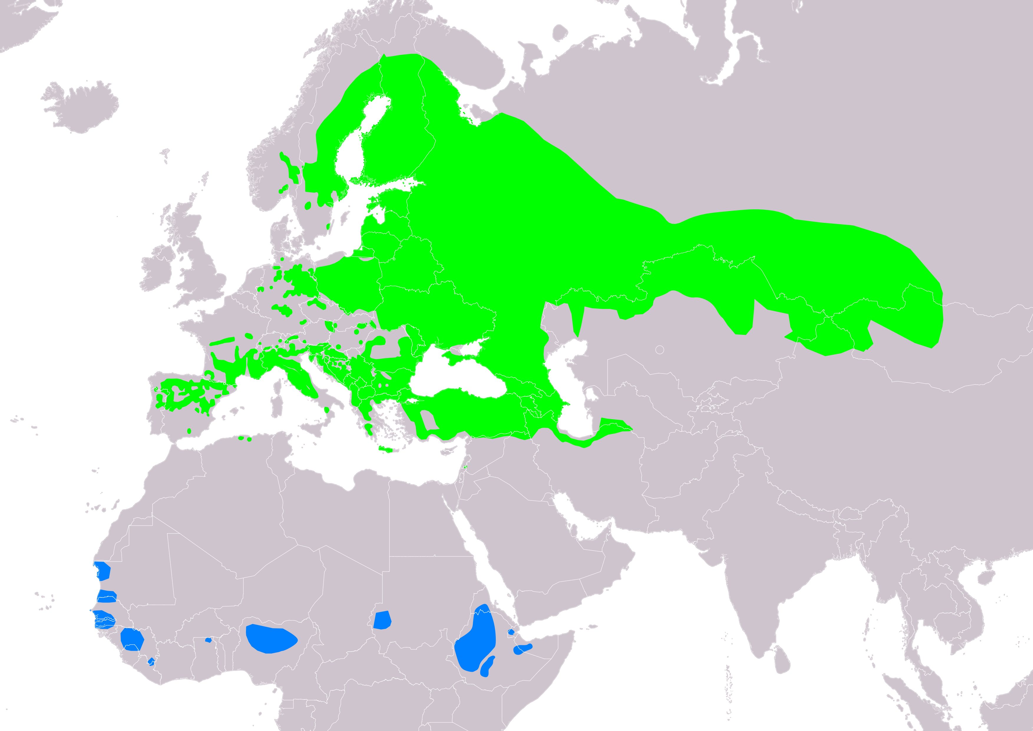 Distribution map of ortolan bunting (Emberiza hortulana) according to IUCN version 2019-3; key: Legend: Extant, breeding (#00FF00), Extant, non-breeding (#007FFF)